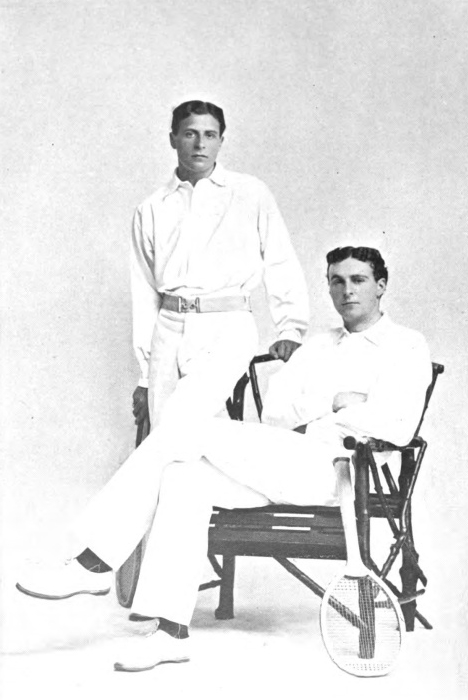 Reginald Frank and Hugh Lawrence Doherty, by Elliot & Fry